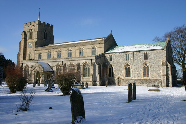 Holy Trinity parish church, Balsham, Cambridgeshire, seen from the southeast in snow